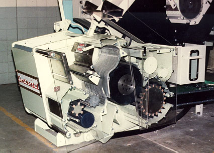 The modern gin plant typically has multiple gin stands. Cotton enters the gin stand through a huller front. The saws grasp the cotton and draw it through widely spaced ribs known as huller ribs. The locks of cotton are drawn from the huller ribs into the bottom of the roll box. The actual ginning process--separation of lint and seed--takes place in the roll box of the gin stand. The ginning action is caused by a set of saws rotating between ginning ribs. The saw teeth pass between the ribs at the ginning point. Here the leading edge of the teeth is approximately parallel to the rib, and the teeth pull the fibers from the seed, which are too large to pass between the ribs.